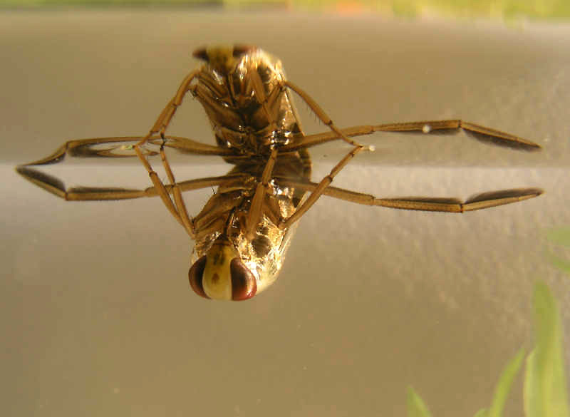 A waterbug, presumably Notonecta glauca (Heteroptera: Notonectidae).